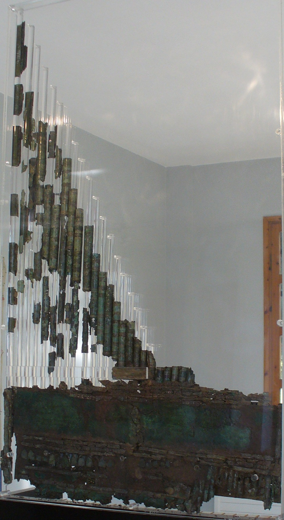 An ancient precursor of the organ, found at Dion. It's now at the site museum.